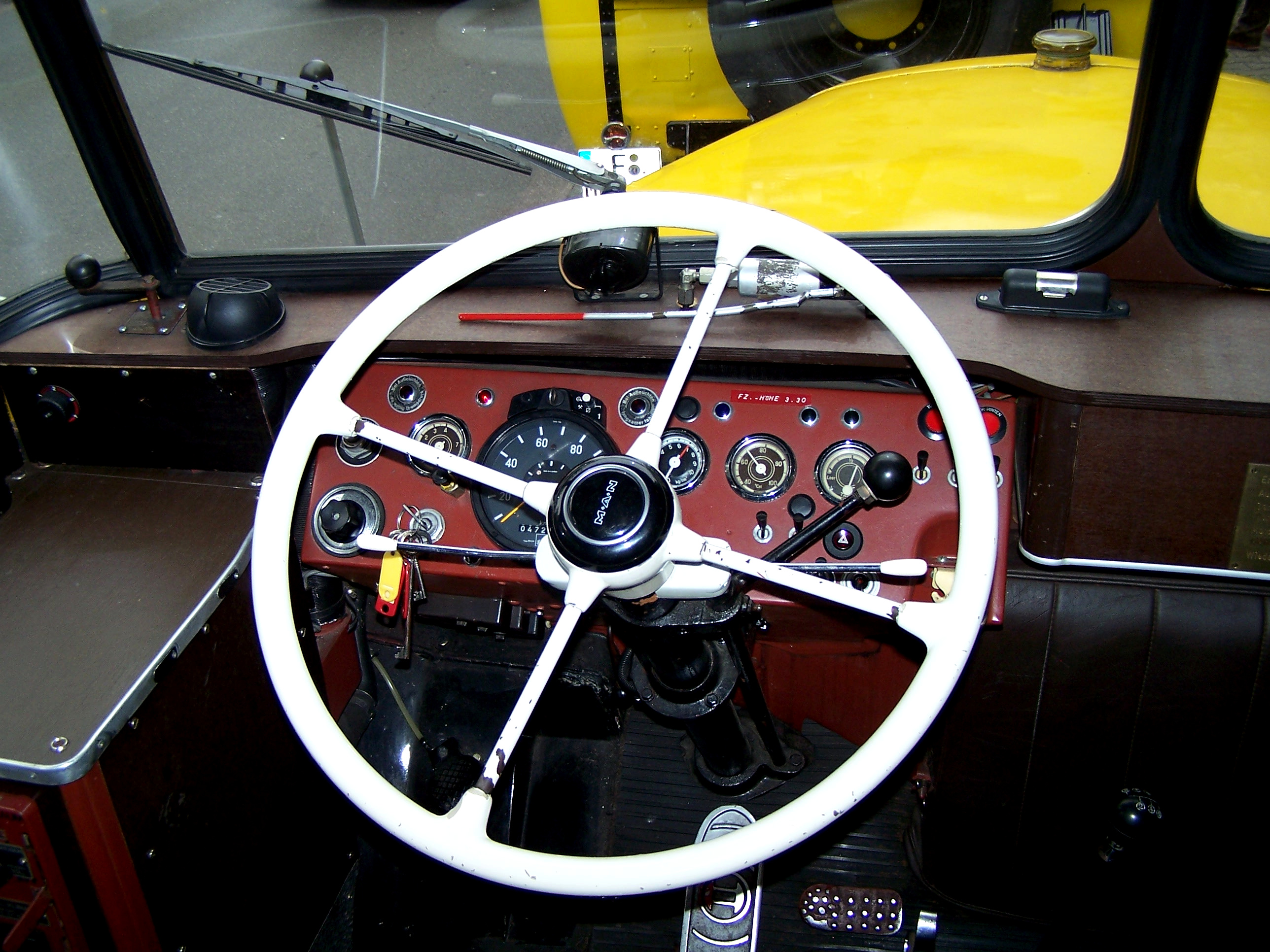 Cockpit of an historical post bus manufactured by MAN